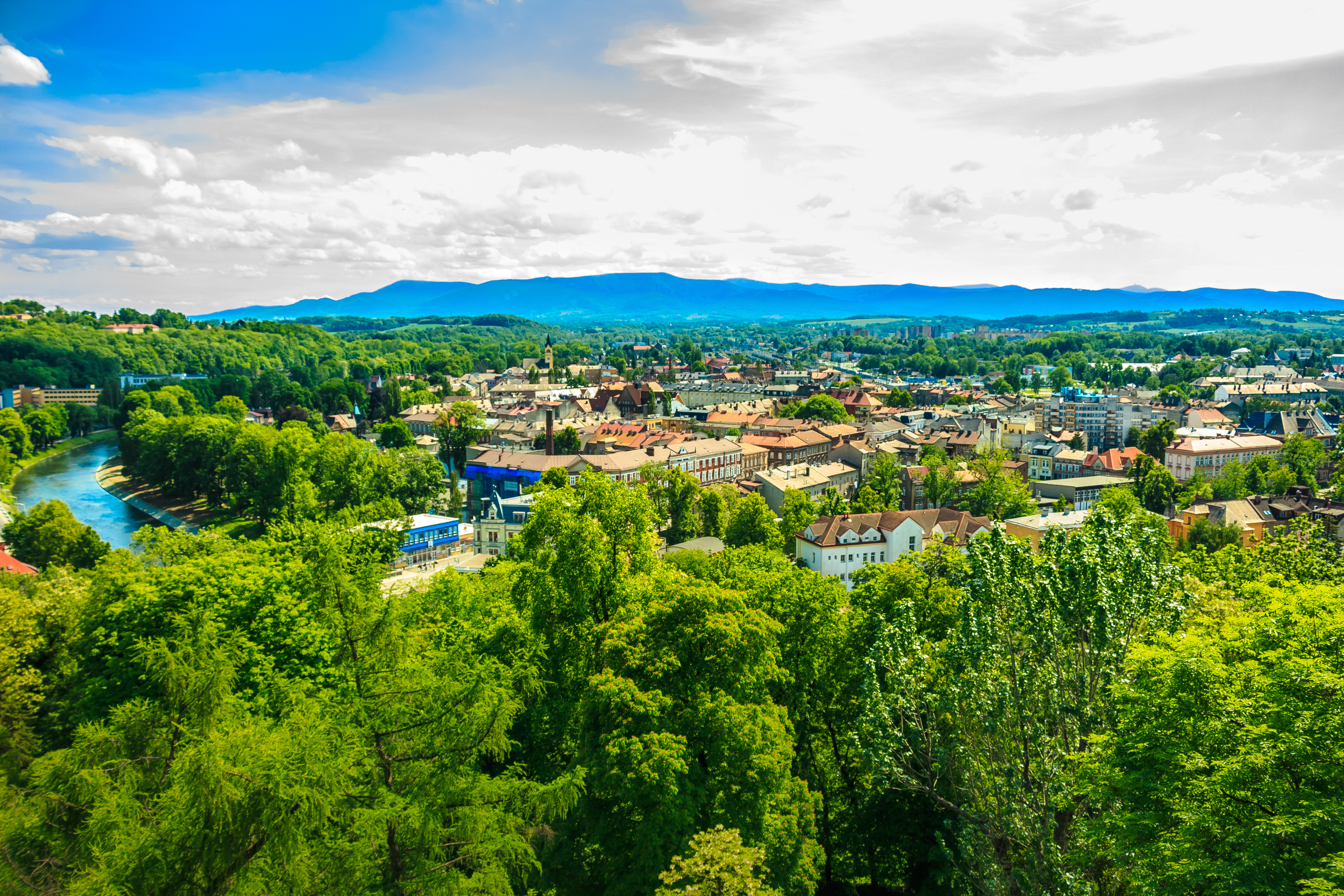 View over Český Těšín from the Wieża Piastowska (Piastowska Tower) in Poland